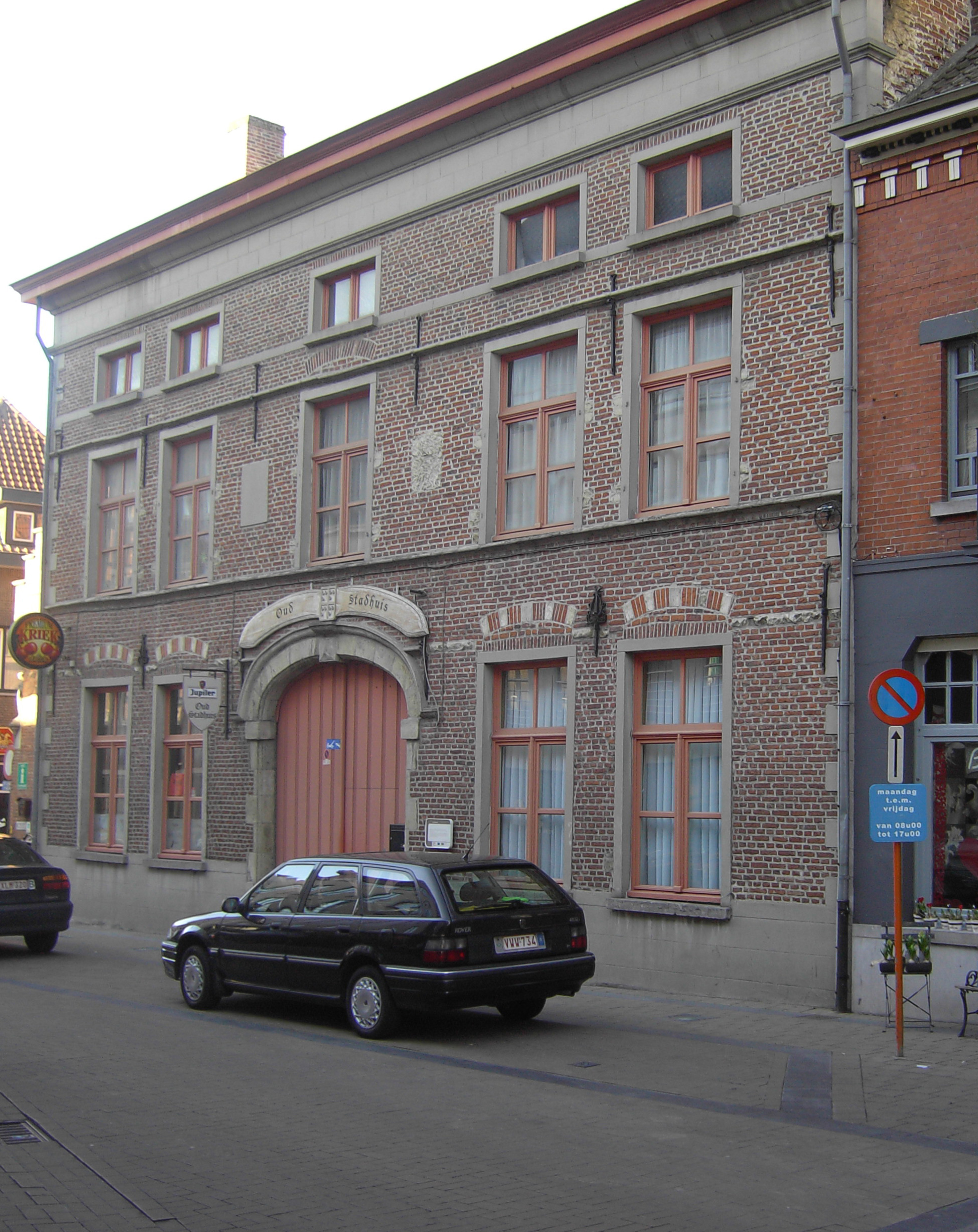 Maldegem - Old town hall